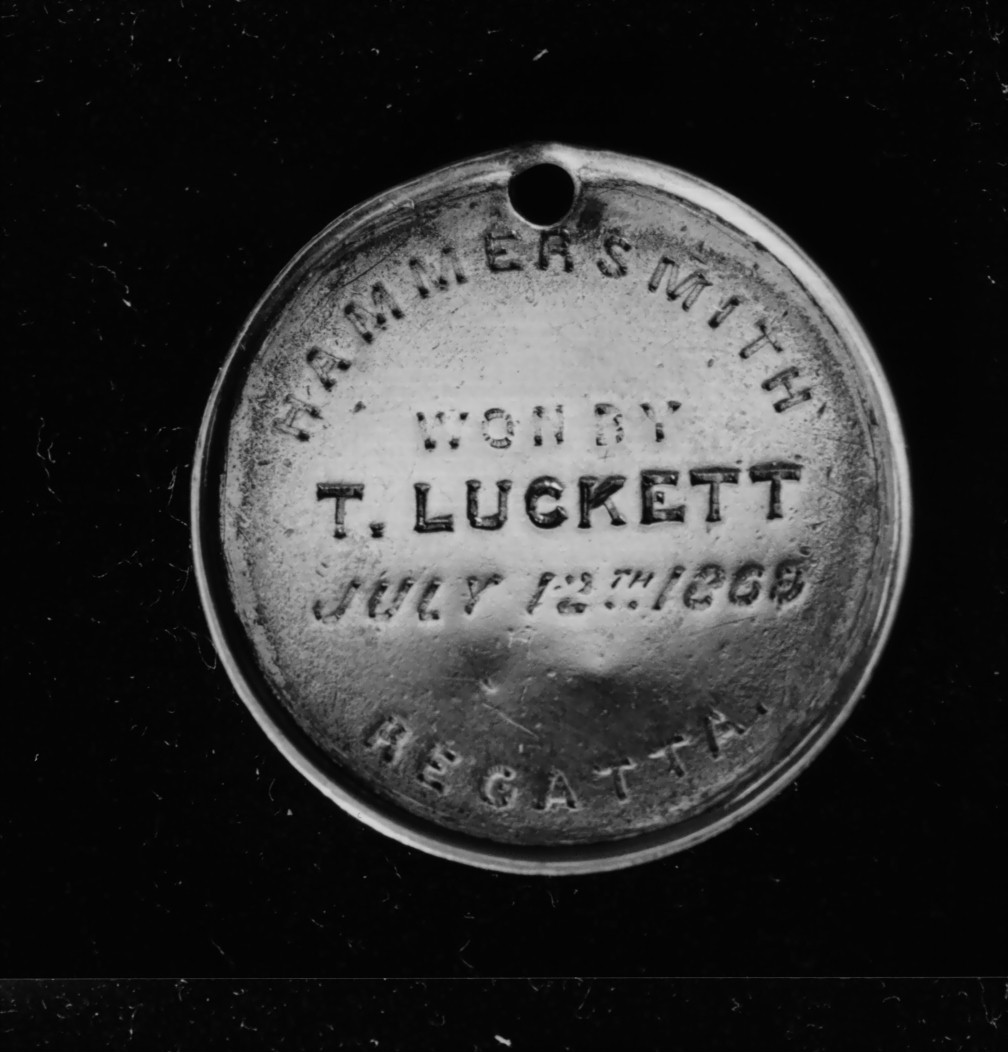 Thomas Luckett medal. Challenge eights, Hammersmith regatta July 12th 1869.